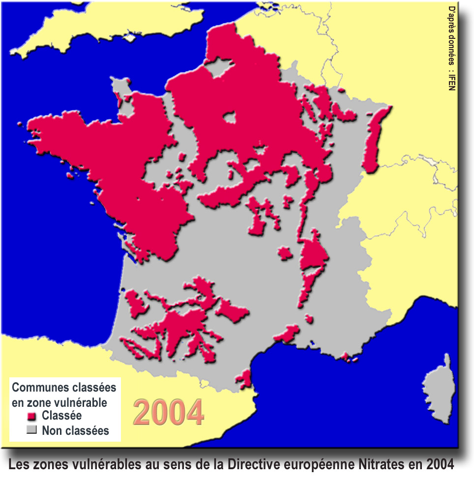 Zones of application of Nitrat European Directive in 2004. on those zones, action plans have to be made and applied